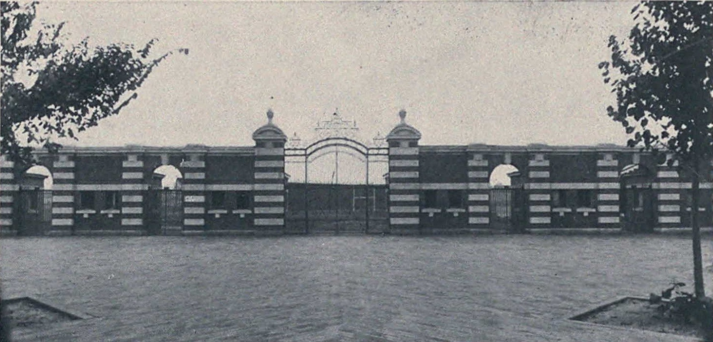 Photograph of the front entrance and gates to Ferry Field taken c. October 1906 at the time of its opening